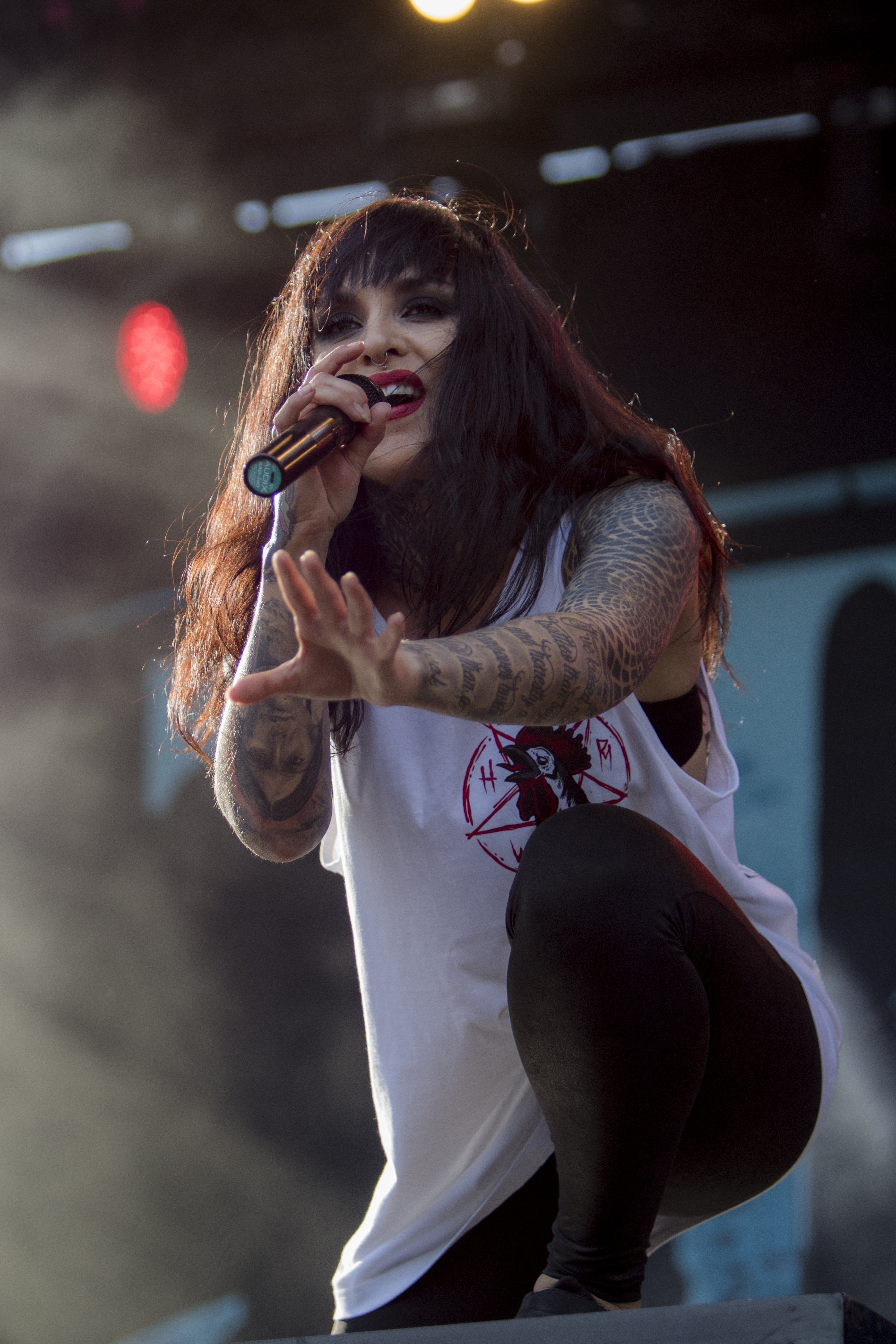 Jinjer at John Smith 2019 festival in Peurunka, Finland